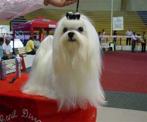 Maltese brazilian champion Dirraus Charlie in a oficial CBKC Dog Show.